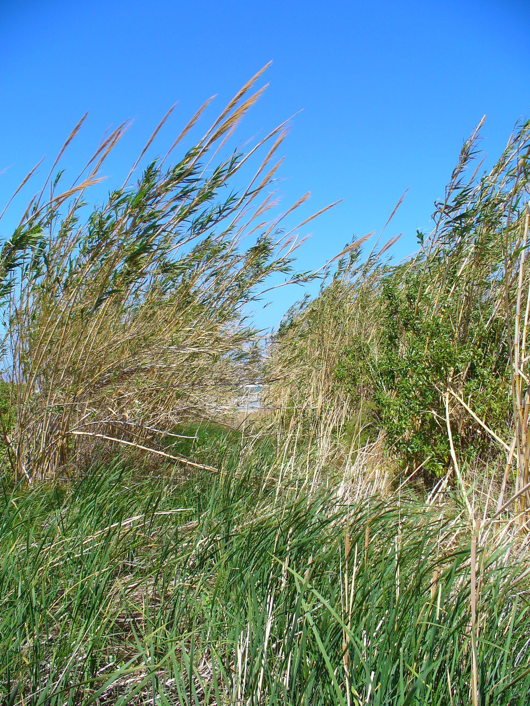 Arundo donax, Poaceae, Giant Cane, habitus; Gournes, Crete, Greece, Habitus. The roots are used in homeopathy as remedy: Arundo mauretanica (Arund-d.)